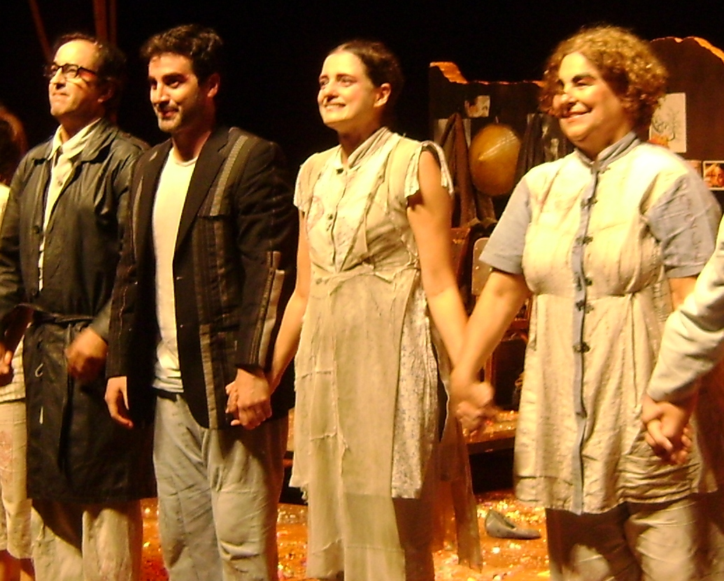 Brazilian actors Ary França, Marcelo Laham, Denise Fraga e Cláudia Mello.